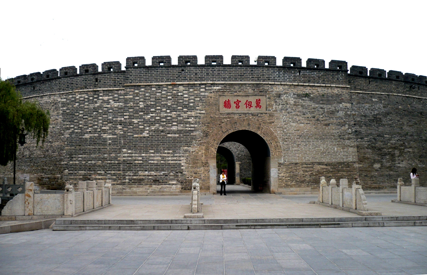 Qufu south gate, with Emperor Qianlong caligraphy